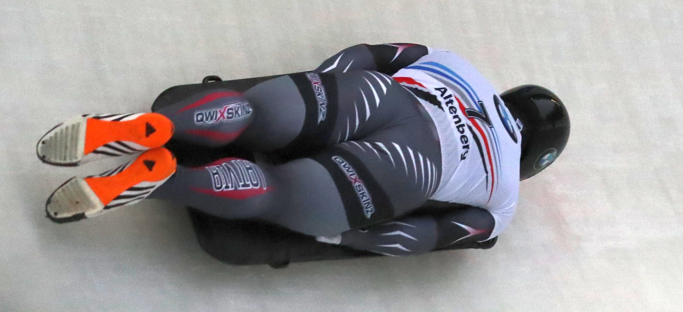 Men's World Cup race at the 2018/19 Skeleton World Cup in Altenberg